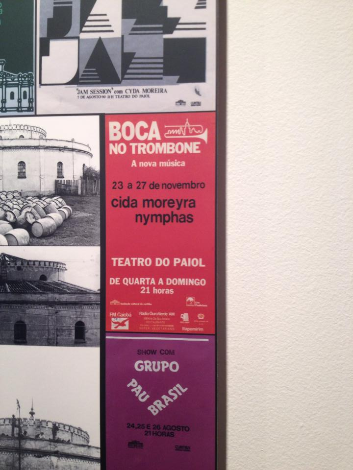 Promotional poster of "Boca no Trombone" festival (1983) in Curitiba, Paraná, Brazil. This specific poster announces musical presentations of Cida Moreyra and Nymphas (Grupo Nymphas) in November 23-27. I do not own the rights to the contents of the poster but I took the photo during the cultural exhibition entitled 'FUNDAÇÃO CULTURAL EM CARTAZ - Mais de 40 anos de história' in Curitiba, Paraná, Brazil.